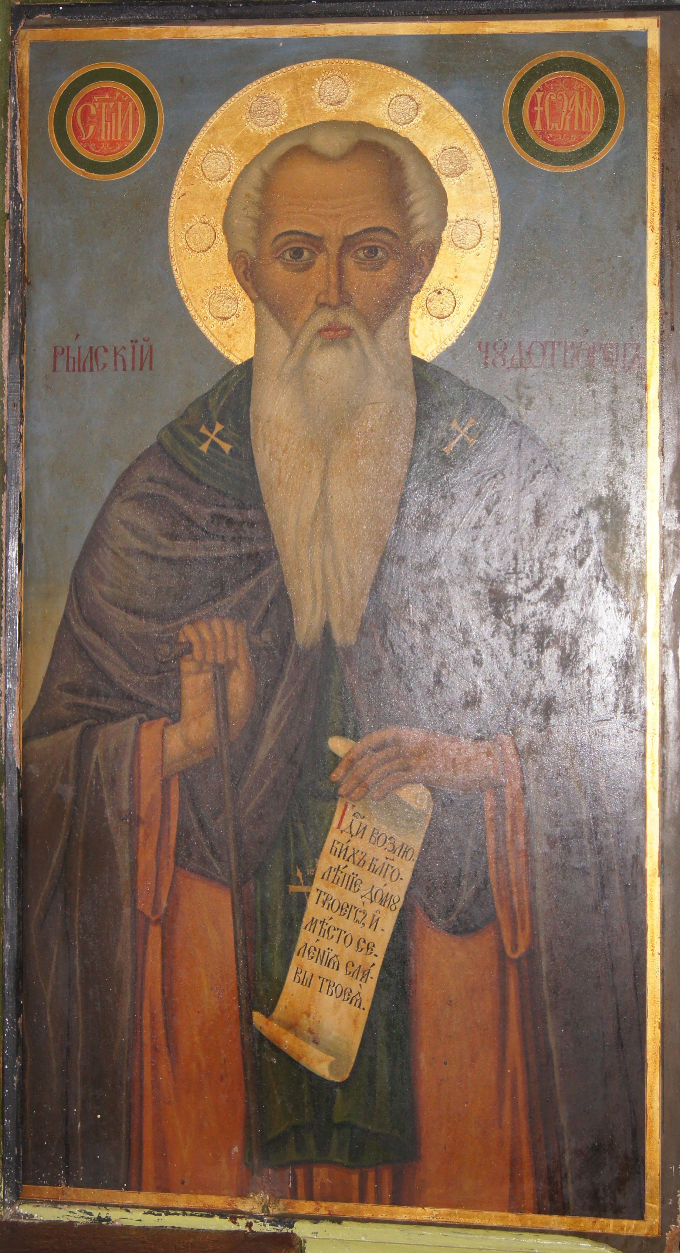 Icon from Simeon Molerov in Dormition of Mary Church in Igralishte.